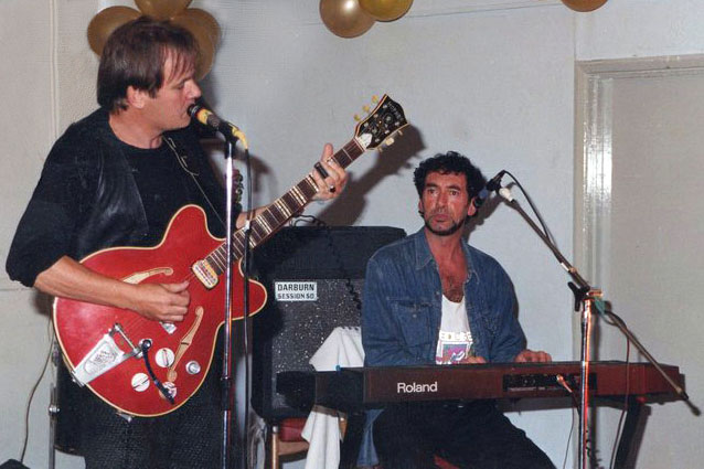 Jona Lewie accompanies English folk-rock and pop composer, singer and multi-instrumentalist musician Keef Trouble at a private function.